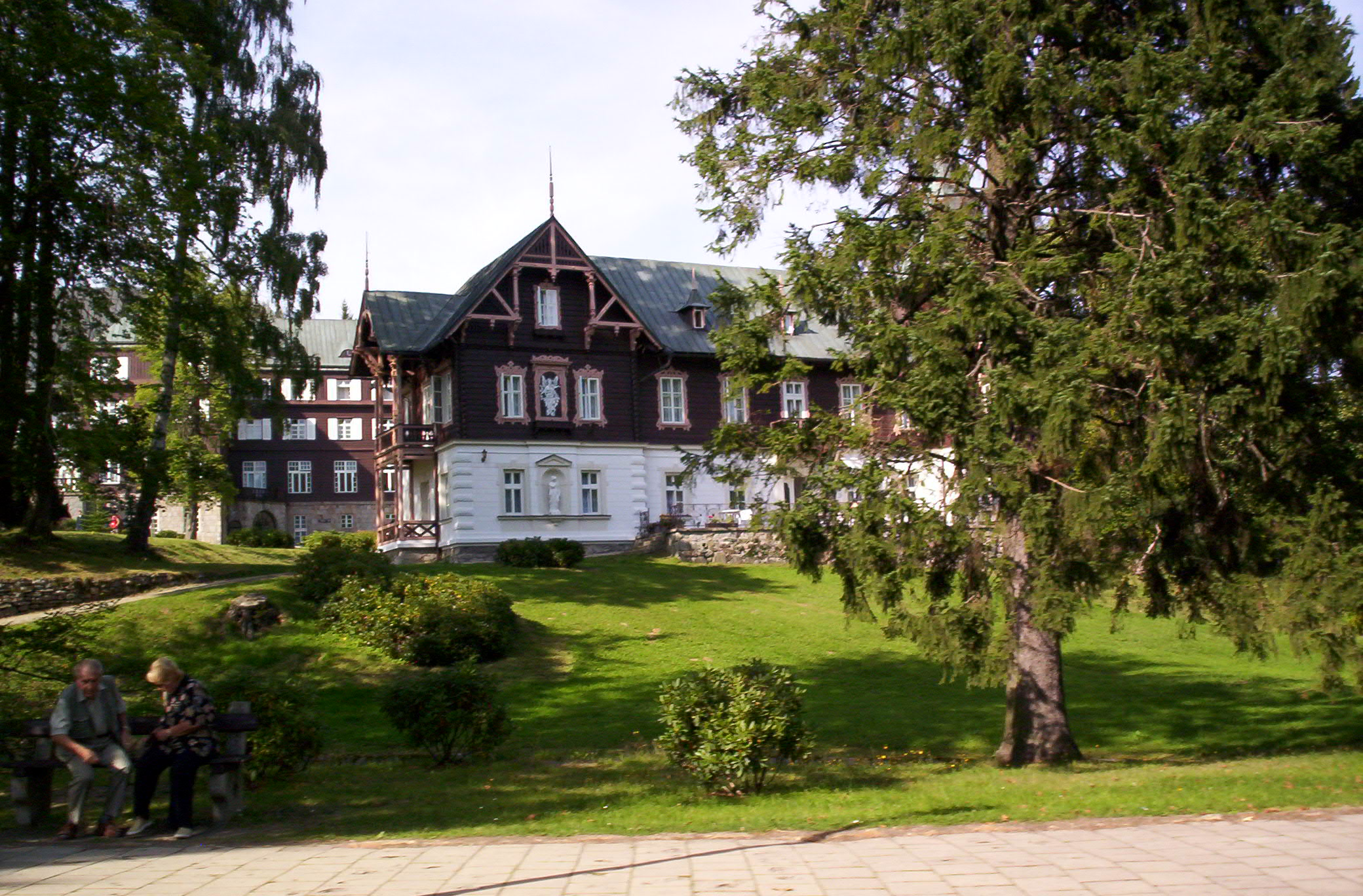 Houses Vlasta and Libuše.